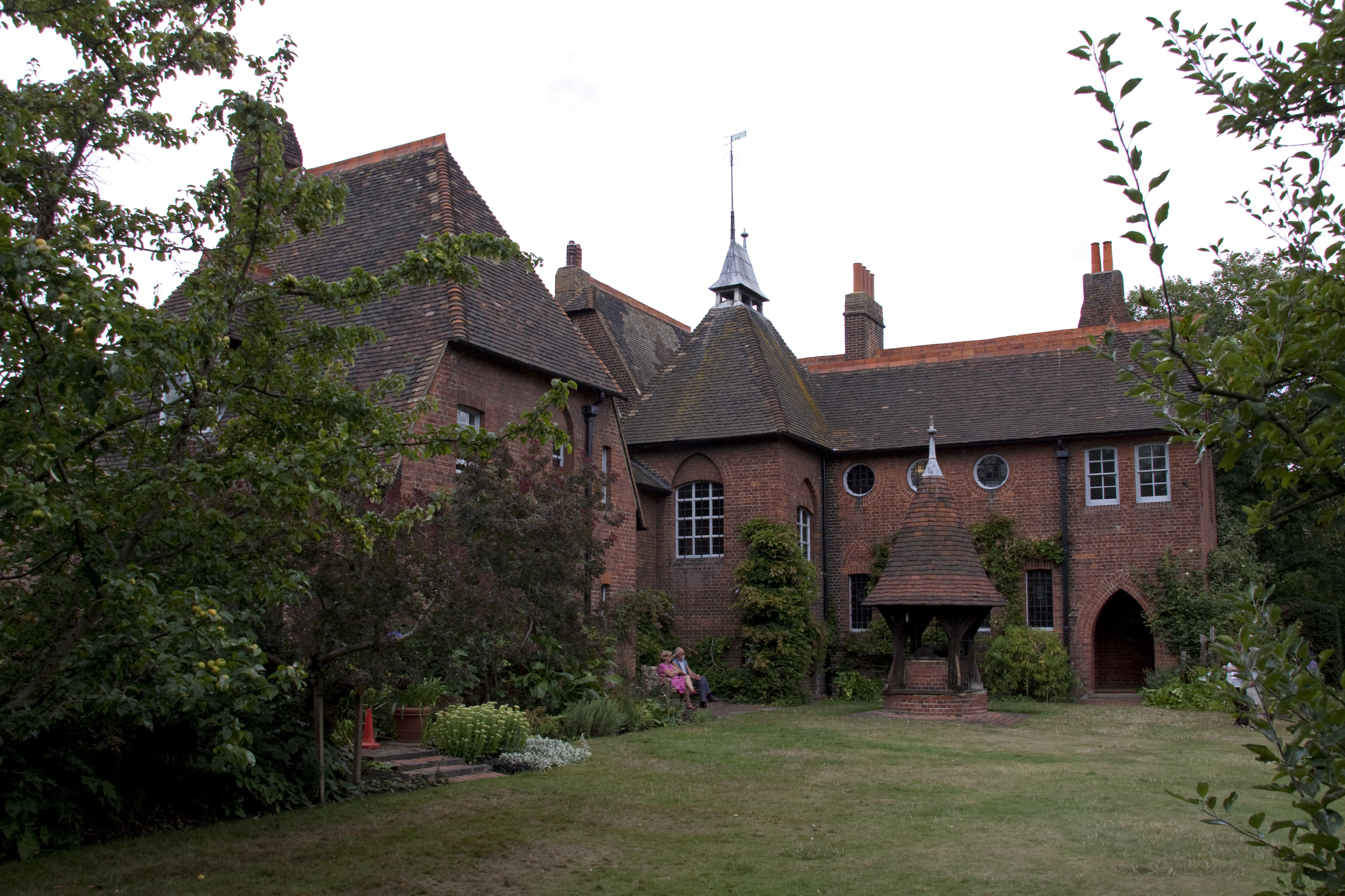 Red House 2